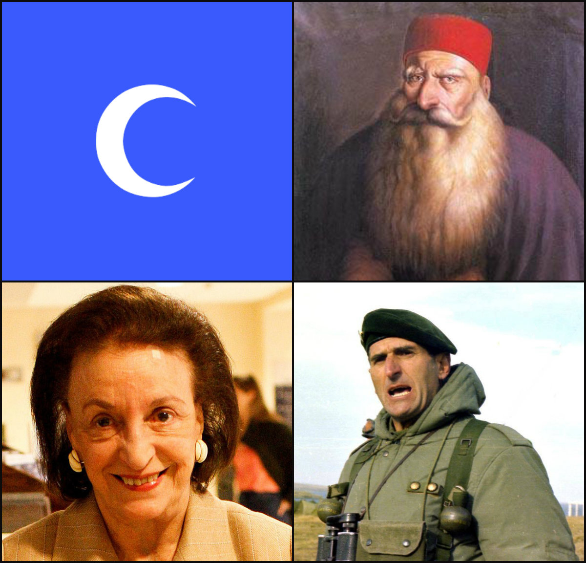 Druze convert to Christianity collage Shihab dynasty Bashir Shihab II Selwa Roosevelt Mohamed Alí Seineldín